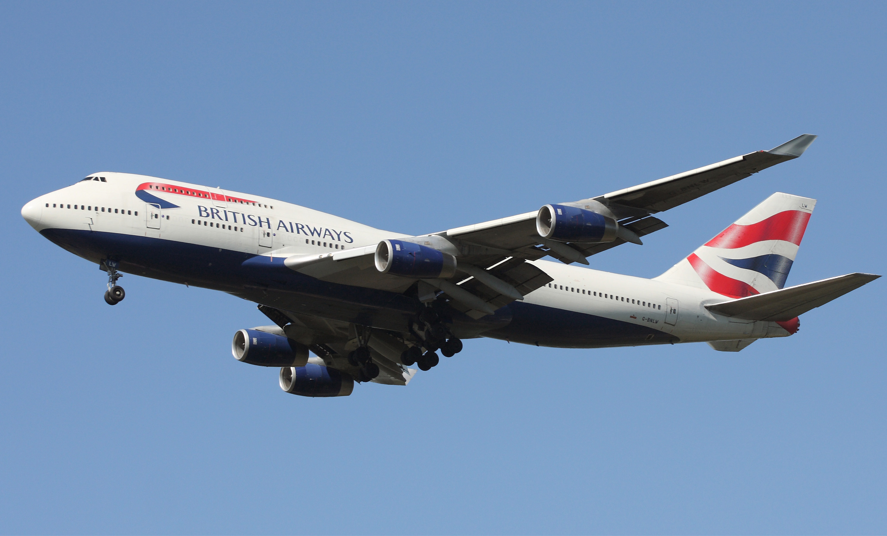 British Airways B747-436